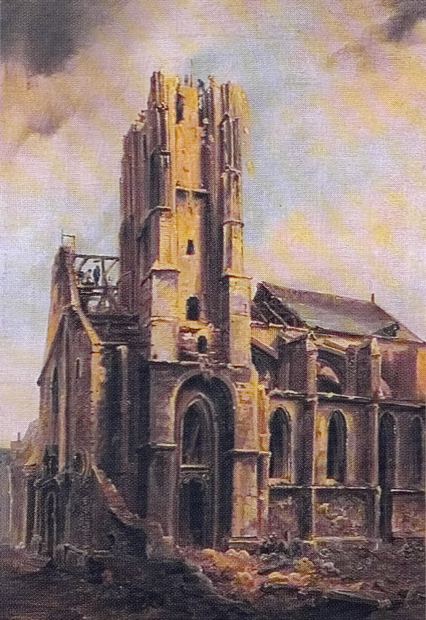 View from the southwest of the demolition of the parish church of Saint Nicholas at Onze Lieve Vrouweplein in the centre of Maastricht (Alexander Schaepkens, ca 1838).